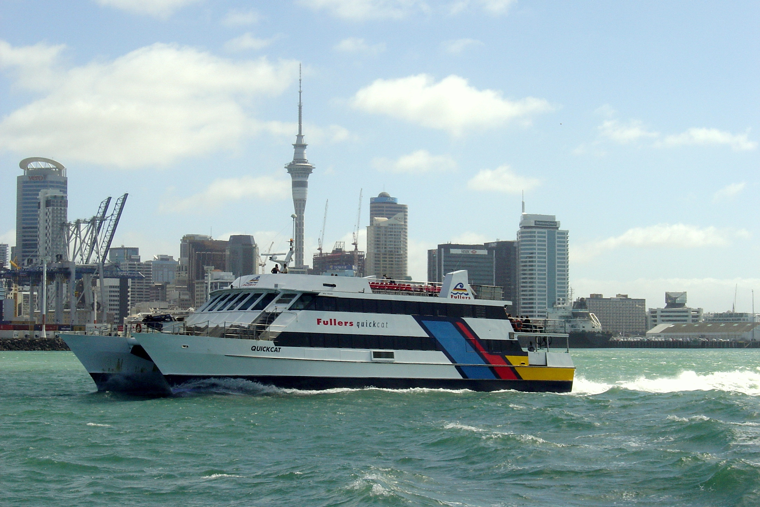 The MV Quick Cat, deployed by Fullers Ferries on the Waiheke Island service, making an impressive pass in front of the buildings of downtown Auckland